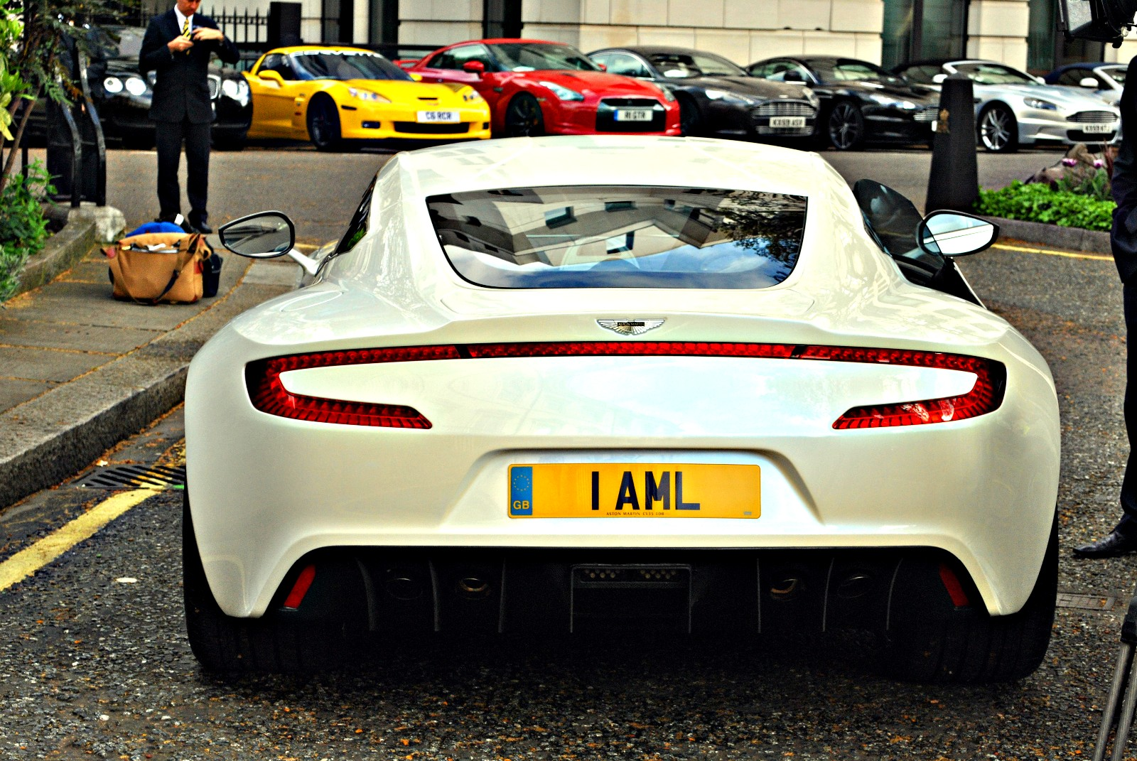 Aston Martin One-77, pictured in London